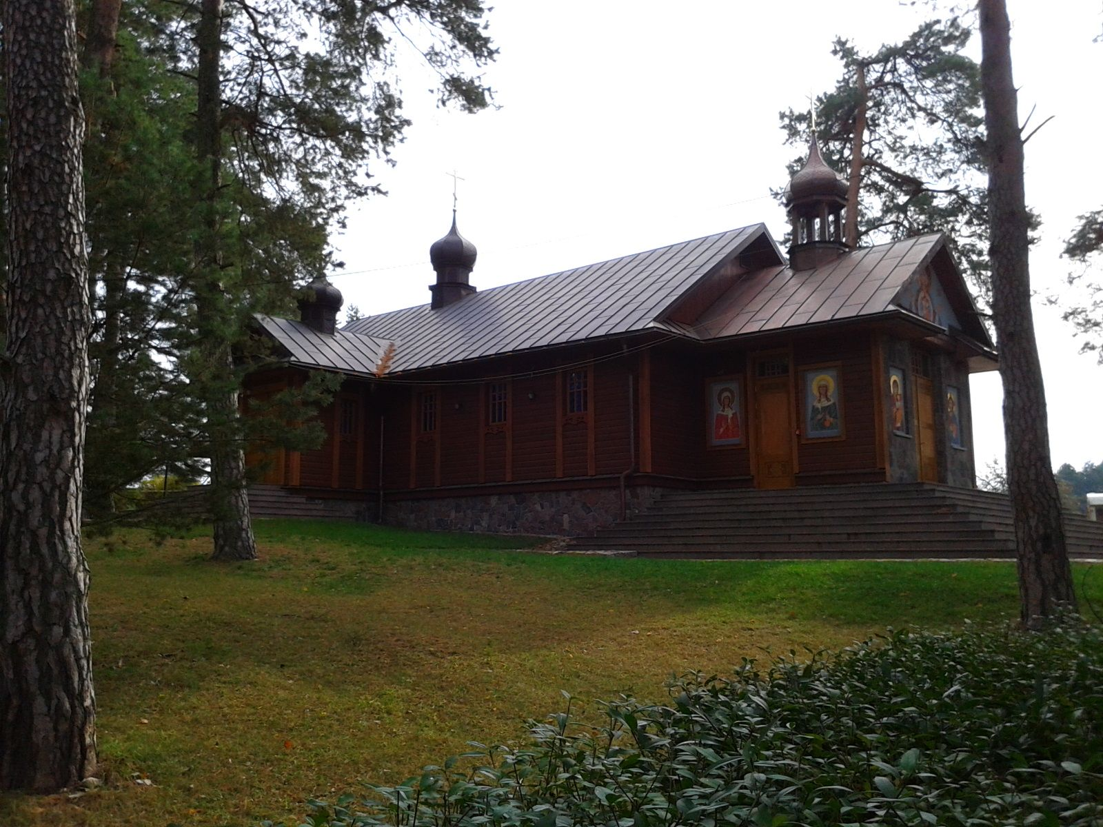 Orthodox church of the Icon of the Mother of God "Joy of All Who Sorrow" on the Holy Mount of Grabarka (2016) Kaszëbsczi: Cerkwiô Ikonë Matczi Bòsczi „Pòceszenié Wszëtczich Strôpionych” na Swiãti Górze Grabarczi (2016)